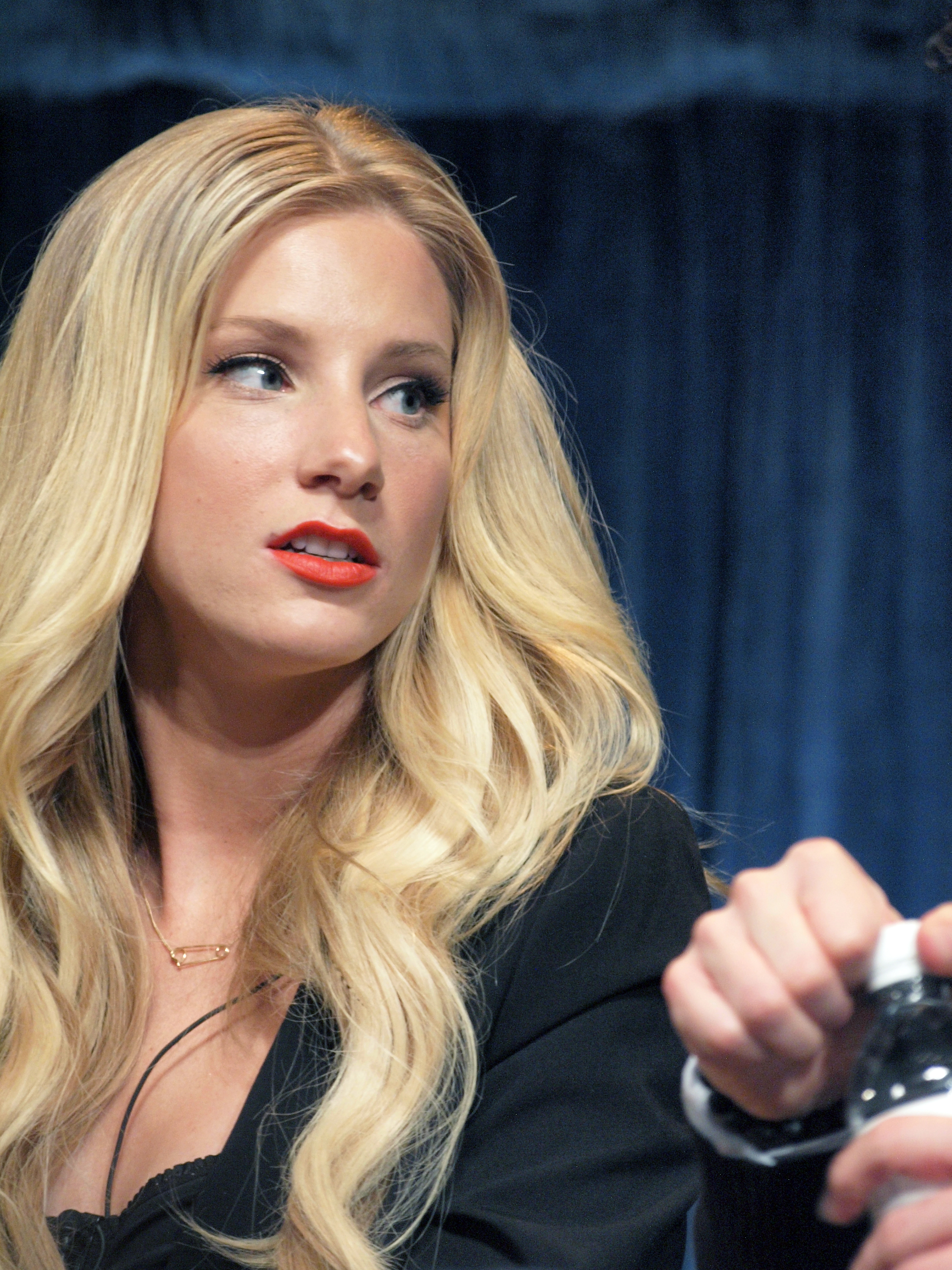 Heather Morris PaleyFest 11a